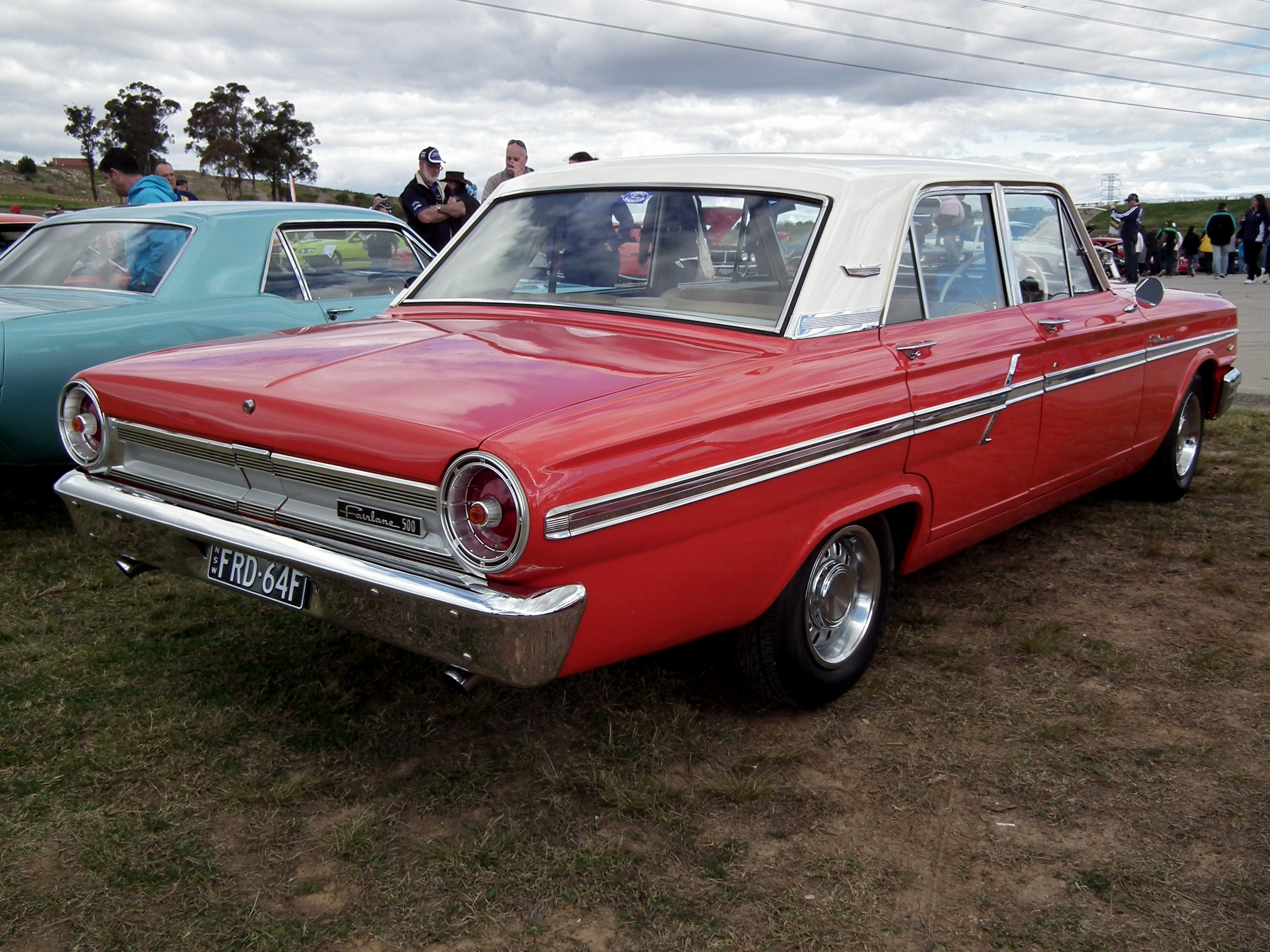 1964 Ford Fairlane 500 sedan. Taken at the 2012 New South Wales All Ford Day, held at Sydney Motorsport Park (formerly Eastern Creek Raceway).